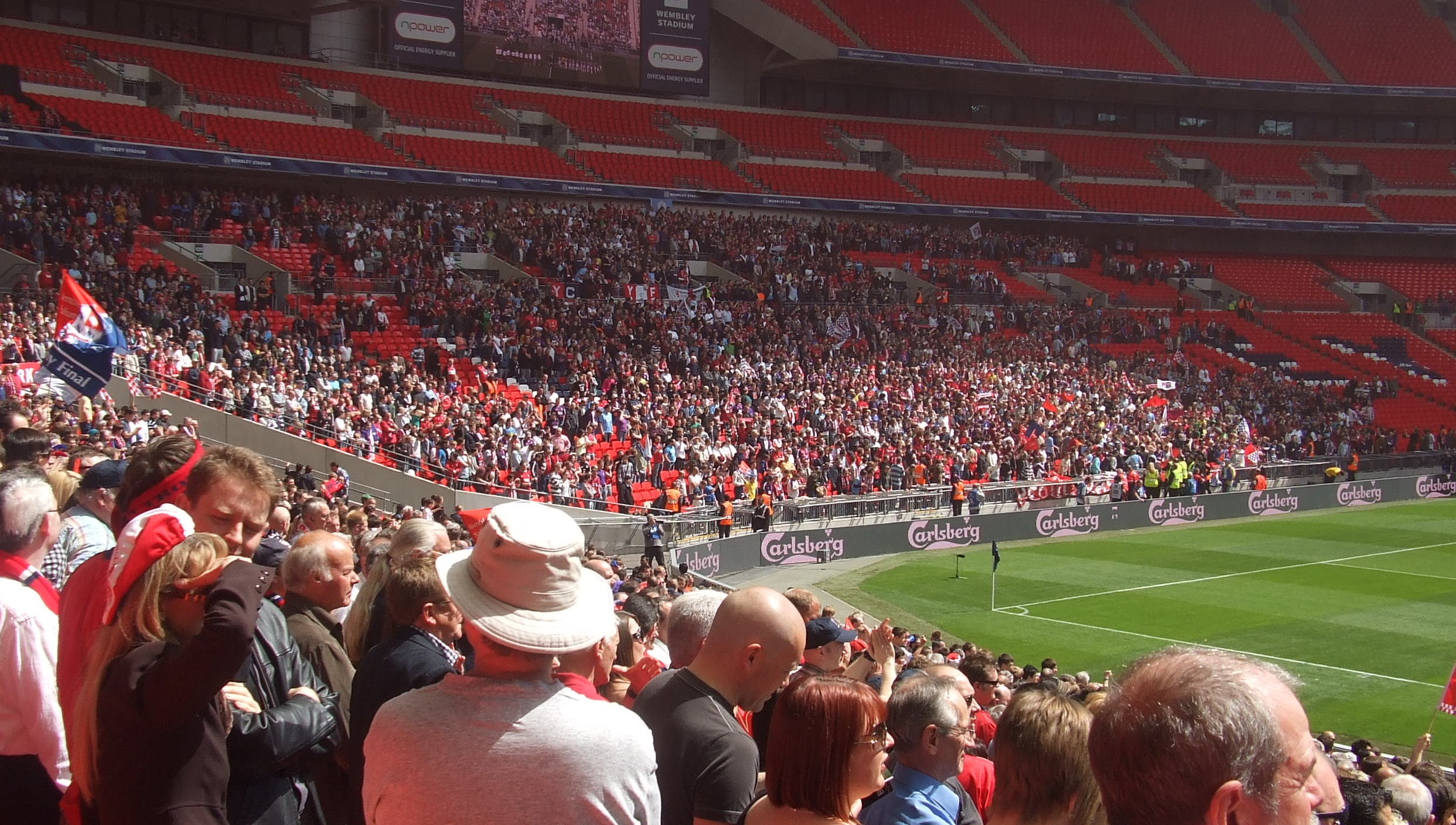 York City supporters in the FA Trophy final in 2009